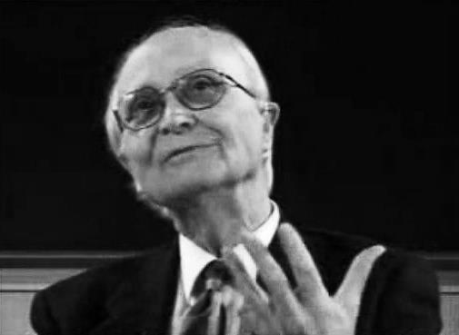 Gilles Gaston Granger, Epistémologie, CNAM, Paris, 2000. (Archives Philippe Binant)